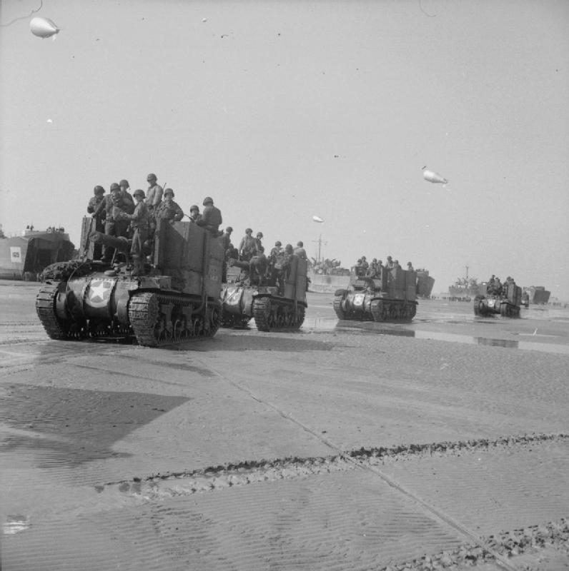 The Invasion of Normandy 6 June 1944 American M12 155mm GMC (Gun Motor Carriage) self-propelled guns coming ashore.